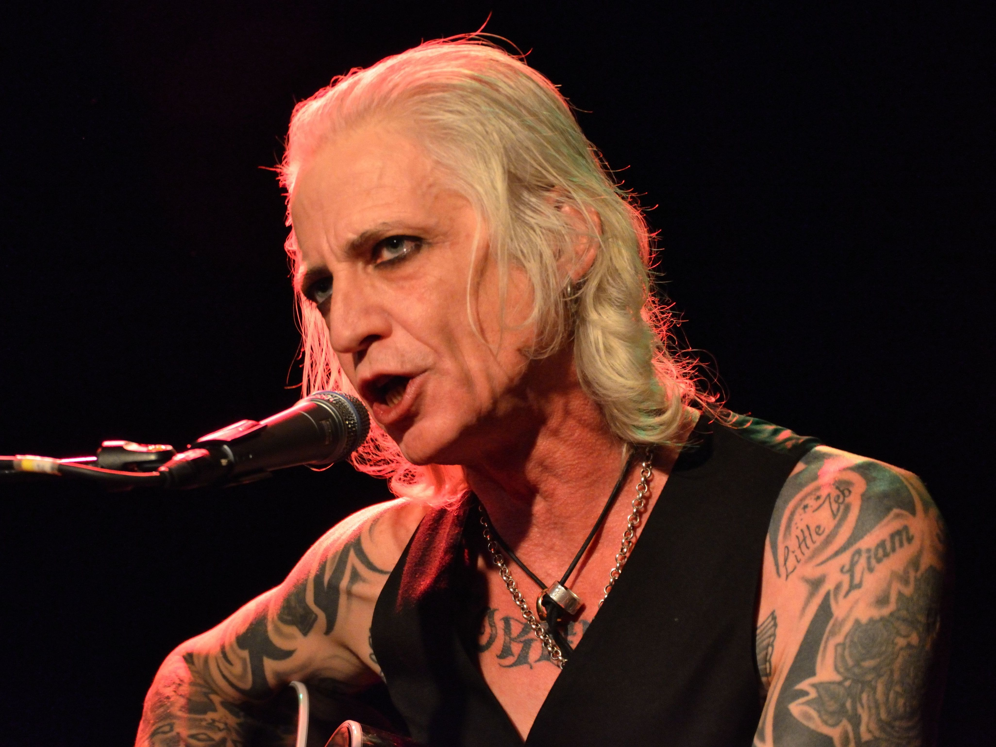 Ledfoot - Tim Scott McConnell 2011 at Viadukt, Zurich, Switzerland